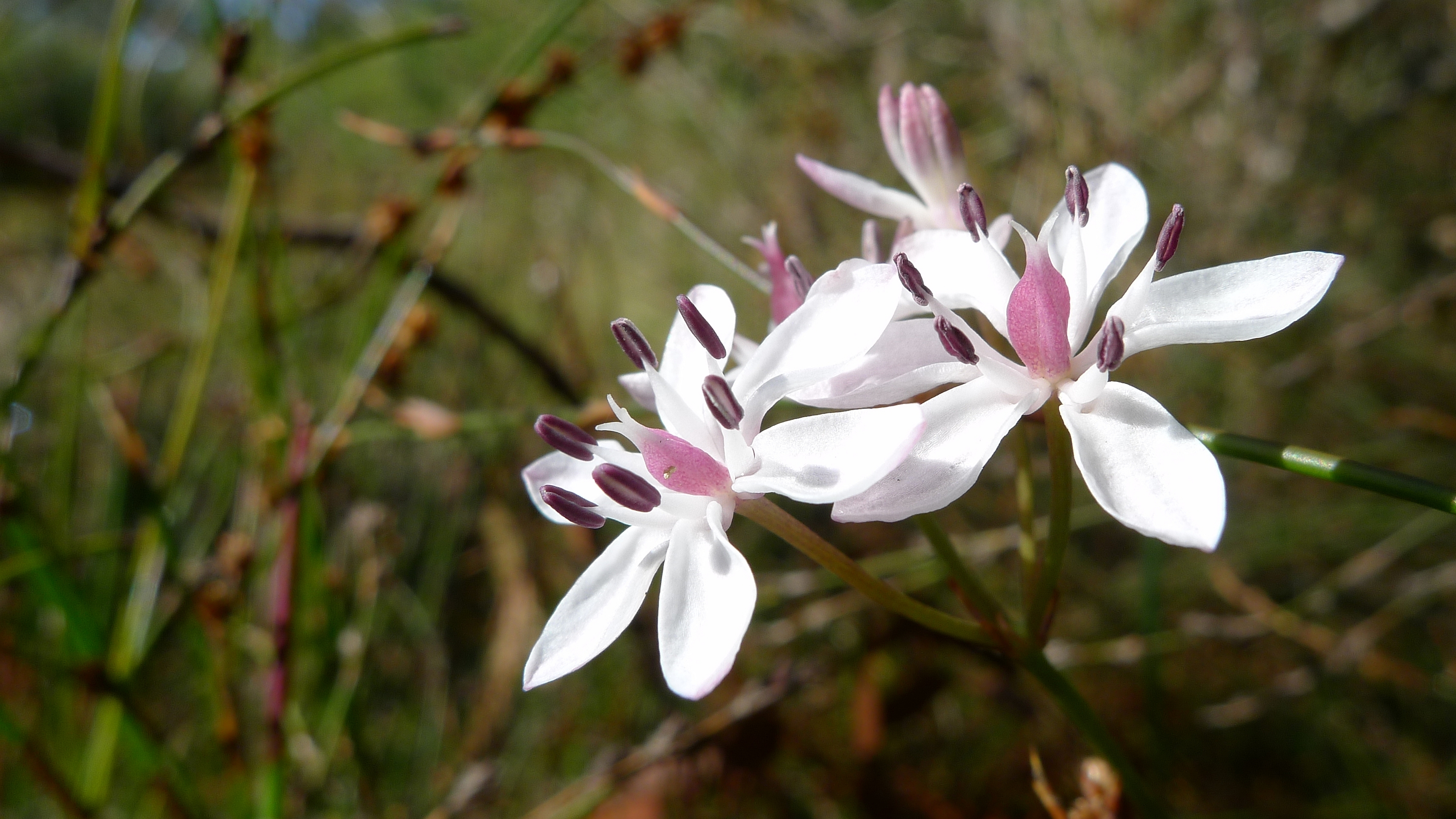 Milkmaids, Burchardia umbellata. Royal National Park, NSW Australia, October 2012.